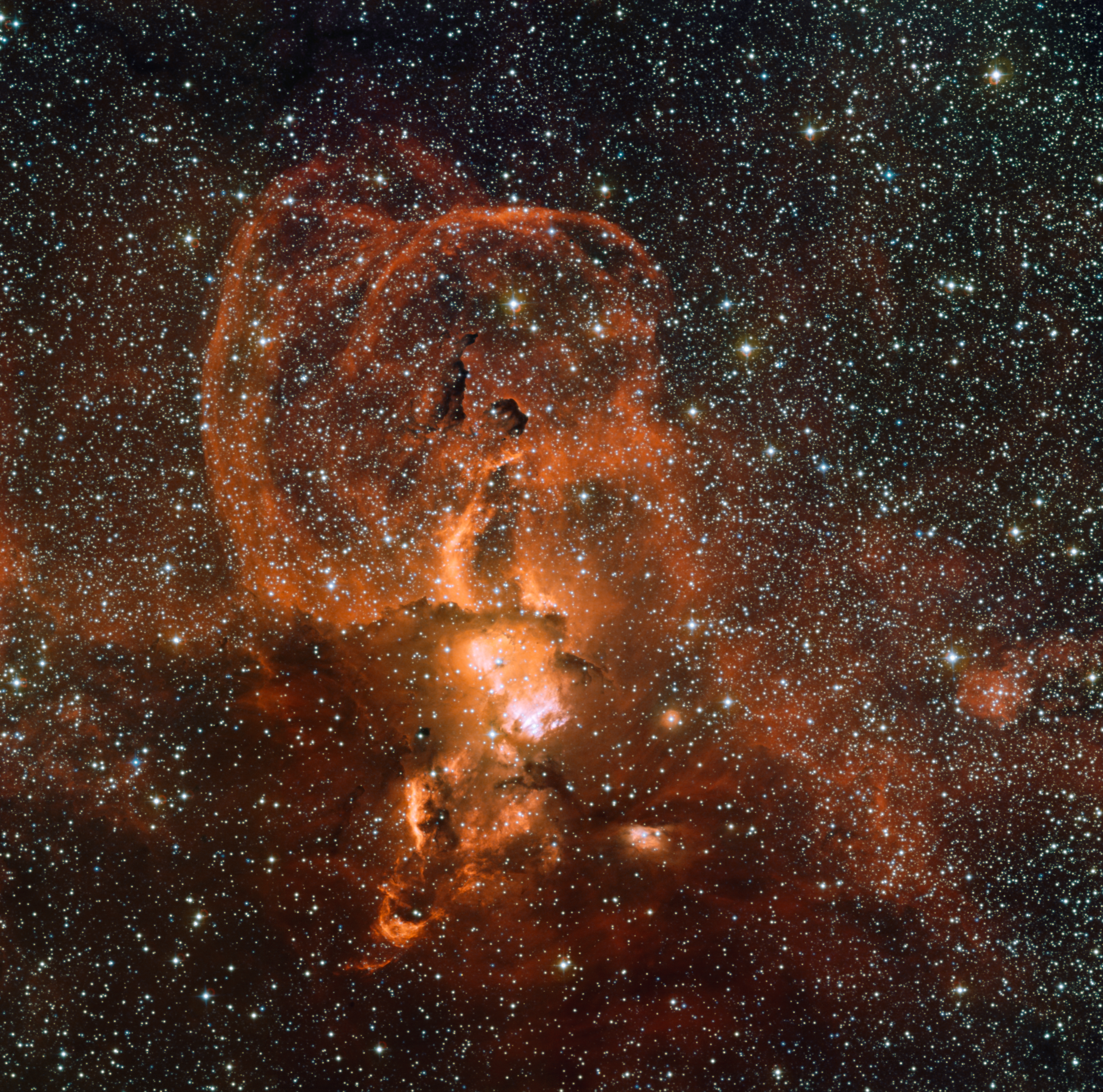 This picture of the star formation region NGC 3582 was taken using the Wide Field Imager at ESO's La Silla Observatory in Chile. The image reveals giant loops of gas ejected by dying stars that bear a striking resemblance to solar prominences.